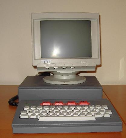 Text phone, for the deaf.